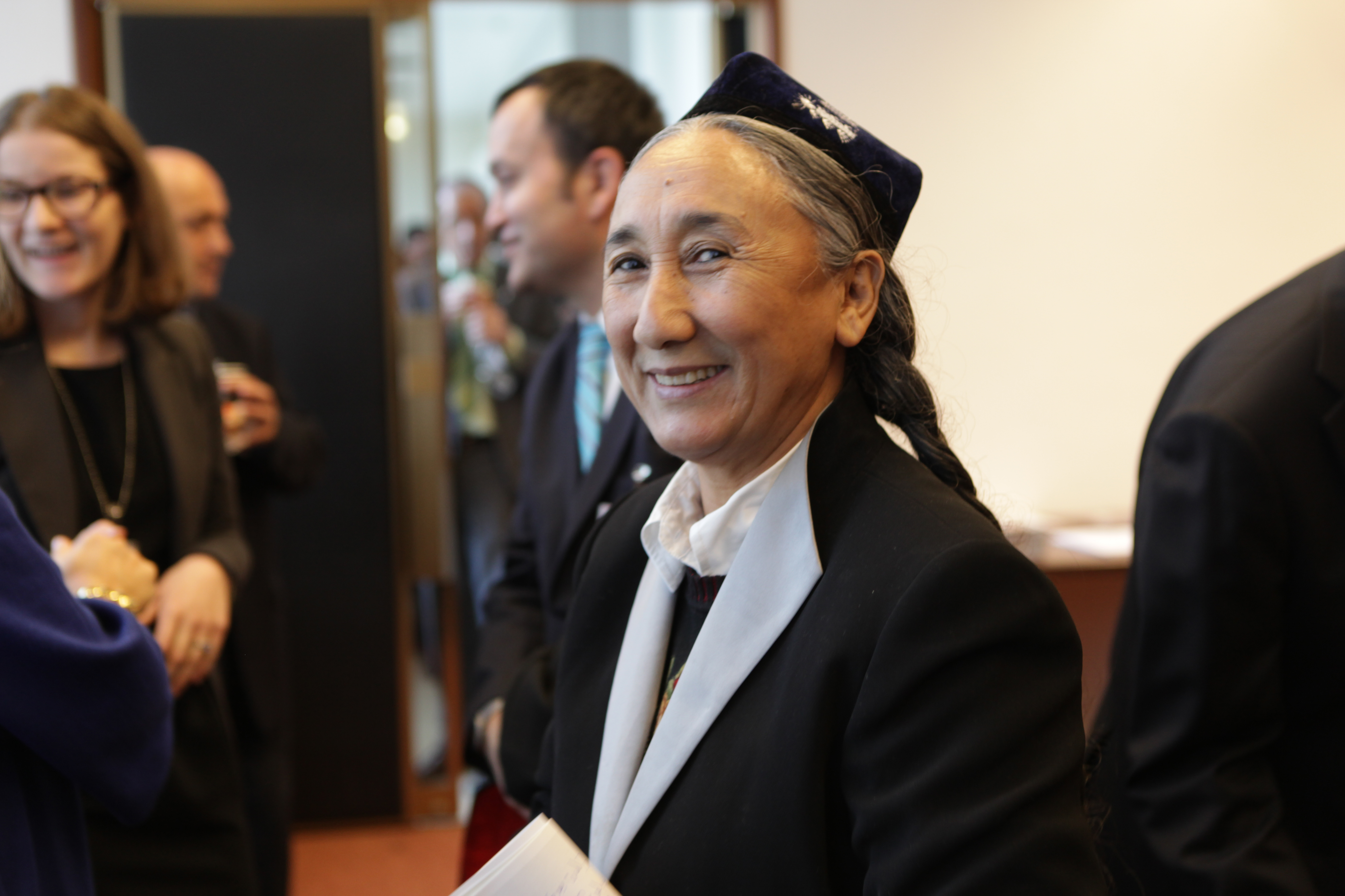 Rebiya Kadeer was in Geneva for a Panel discussion "Guaranteeing the Rights of Minority Women" at the Forum on Minority Issues, United Nations at Geneva. U.S. Mission Photo by Eric Bridiers